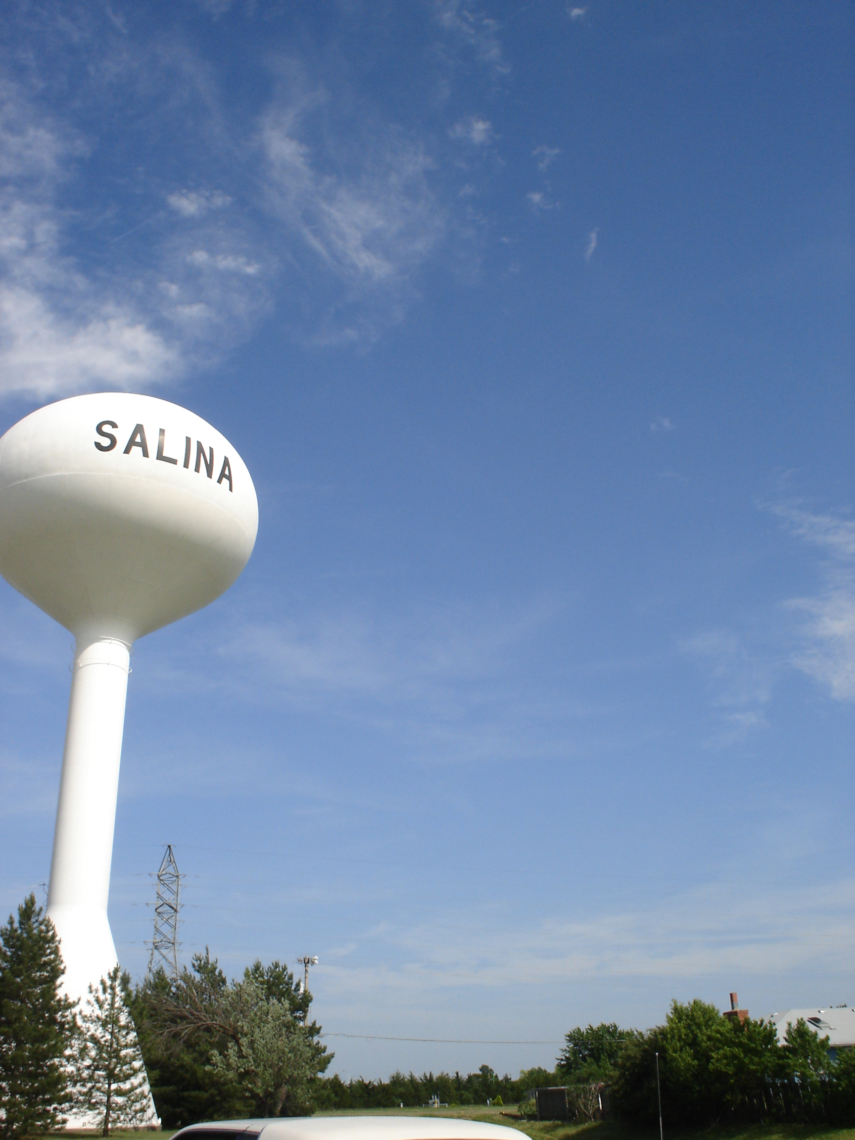 Salina KS watertower in 2006